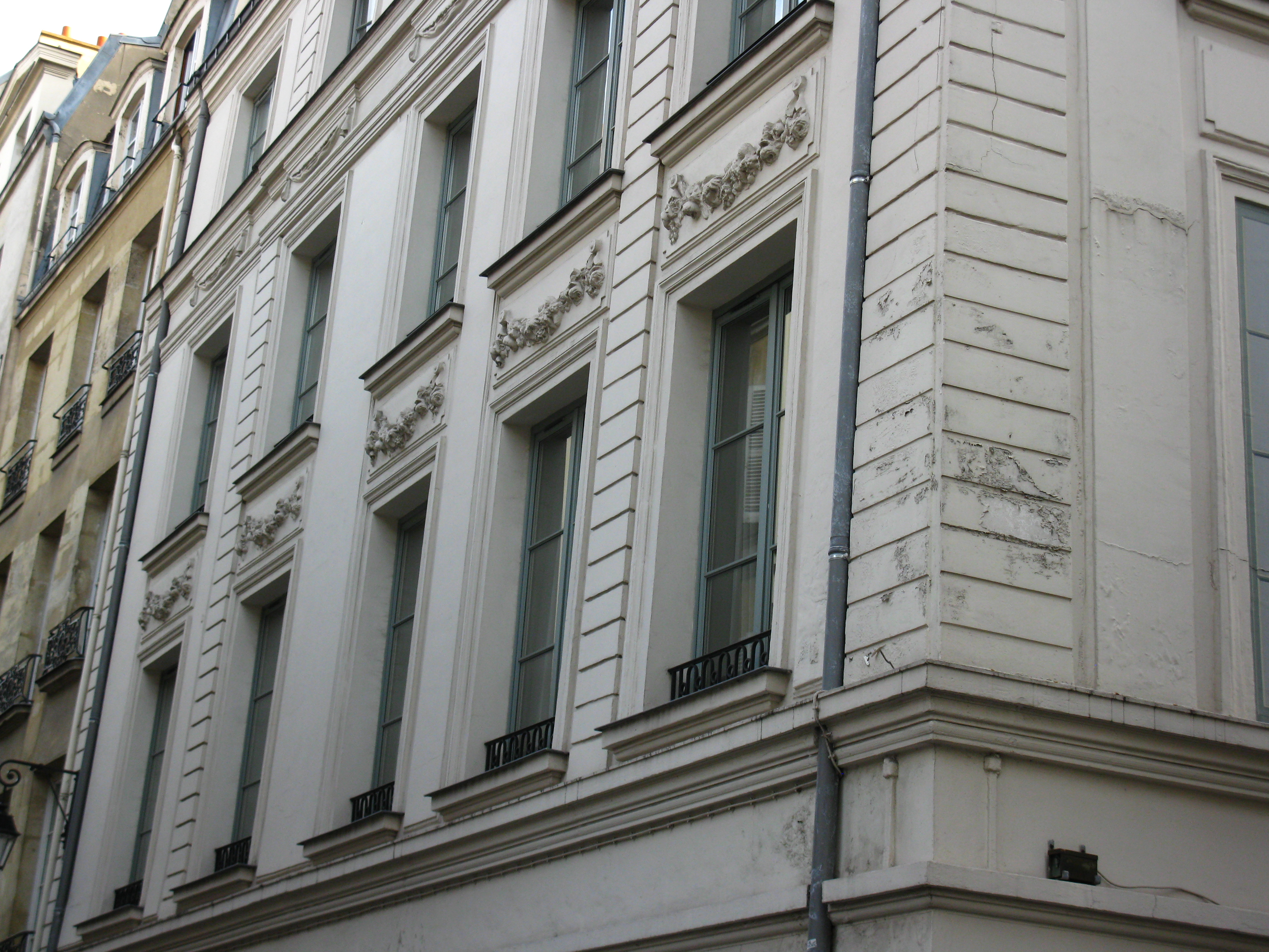 Windows of the 7 rue de l'Hôtel-Colbert, Paris